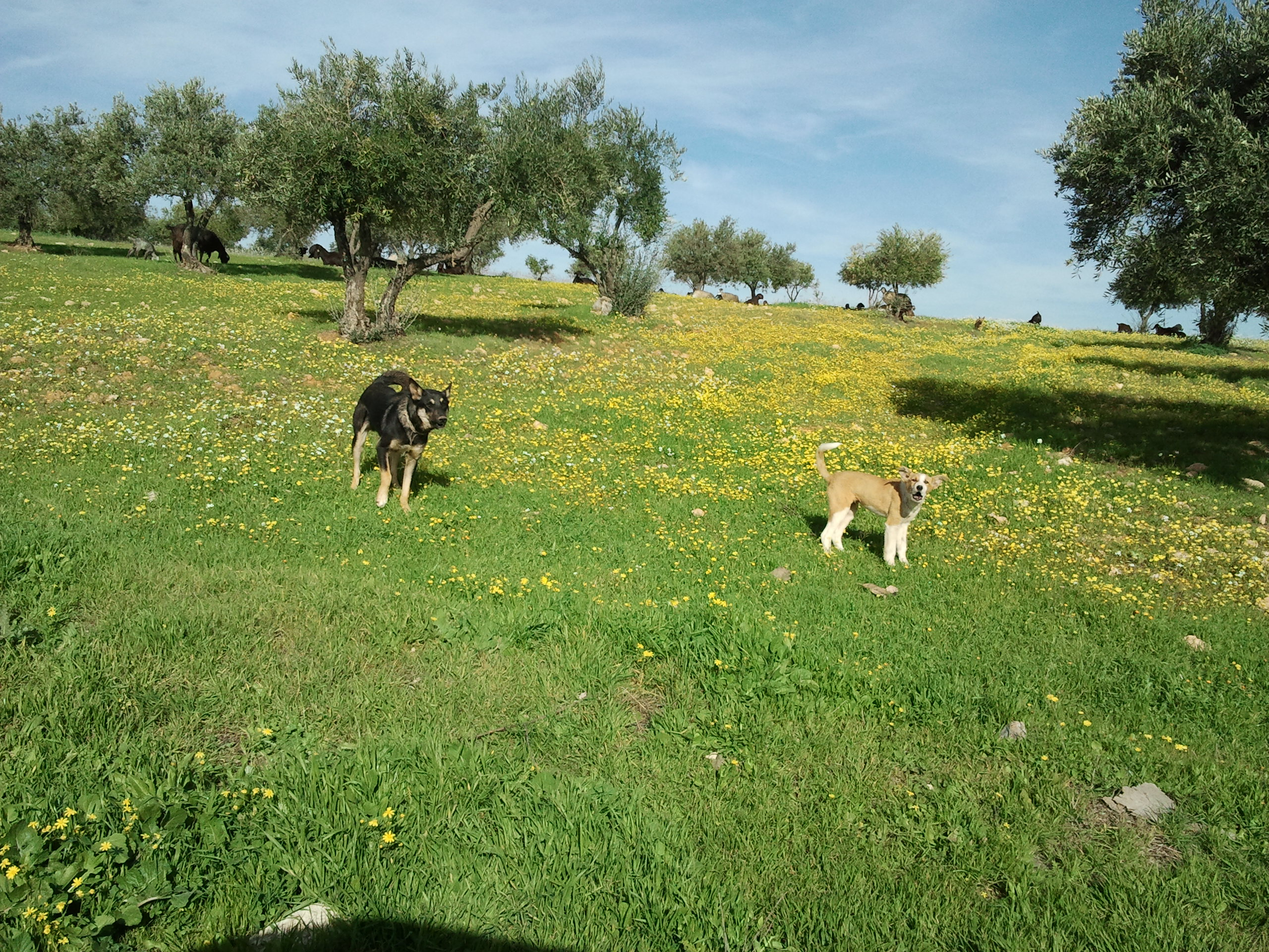 منطقة رعوية في المغيرات ( للجنوب من بلدة الشجرة) حيث تكثر الماشية للاستفادة من المراعي الطبيعية